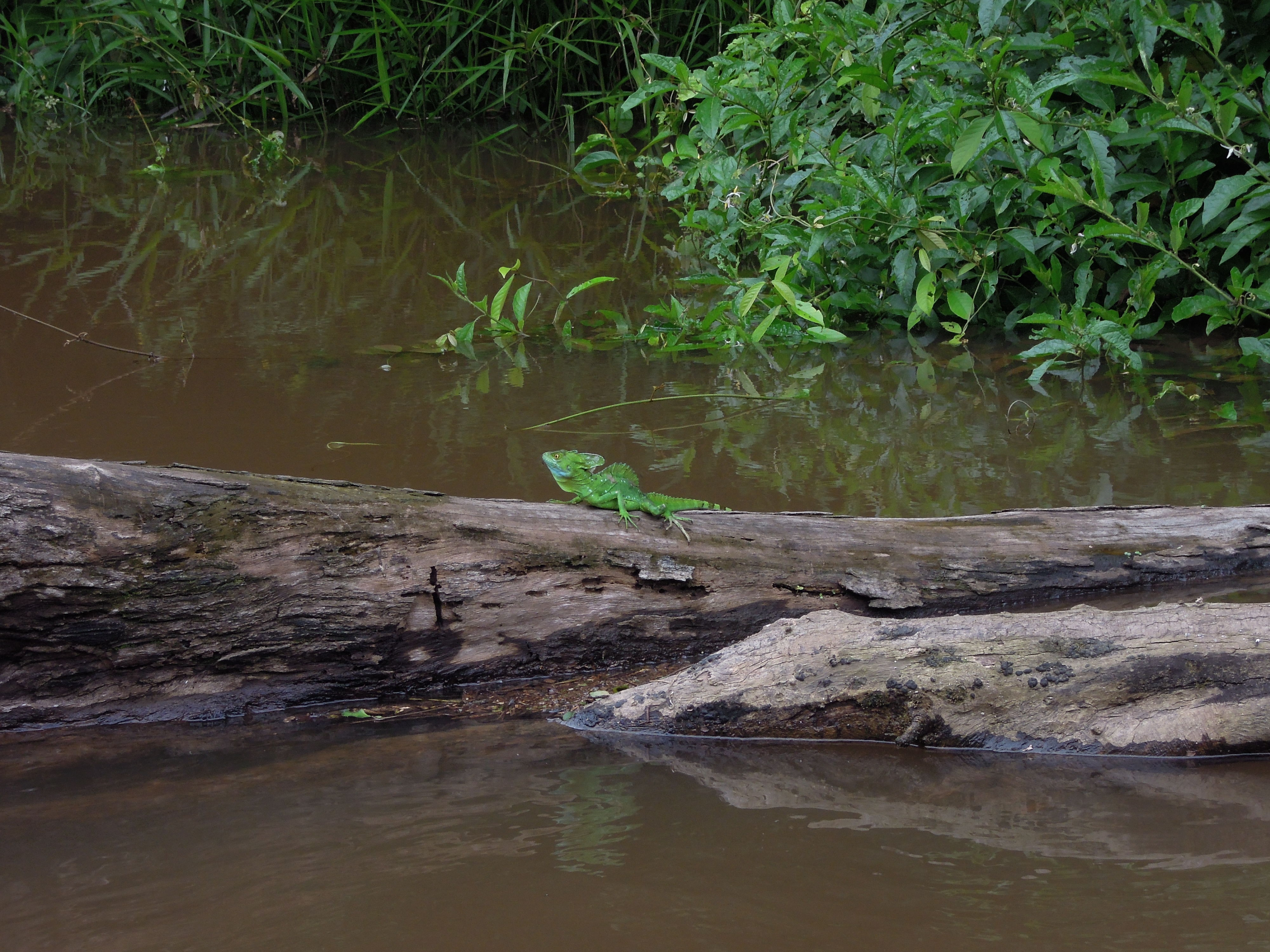 Basisliscus basking in Caño Negro Wildlife Reserve